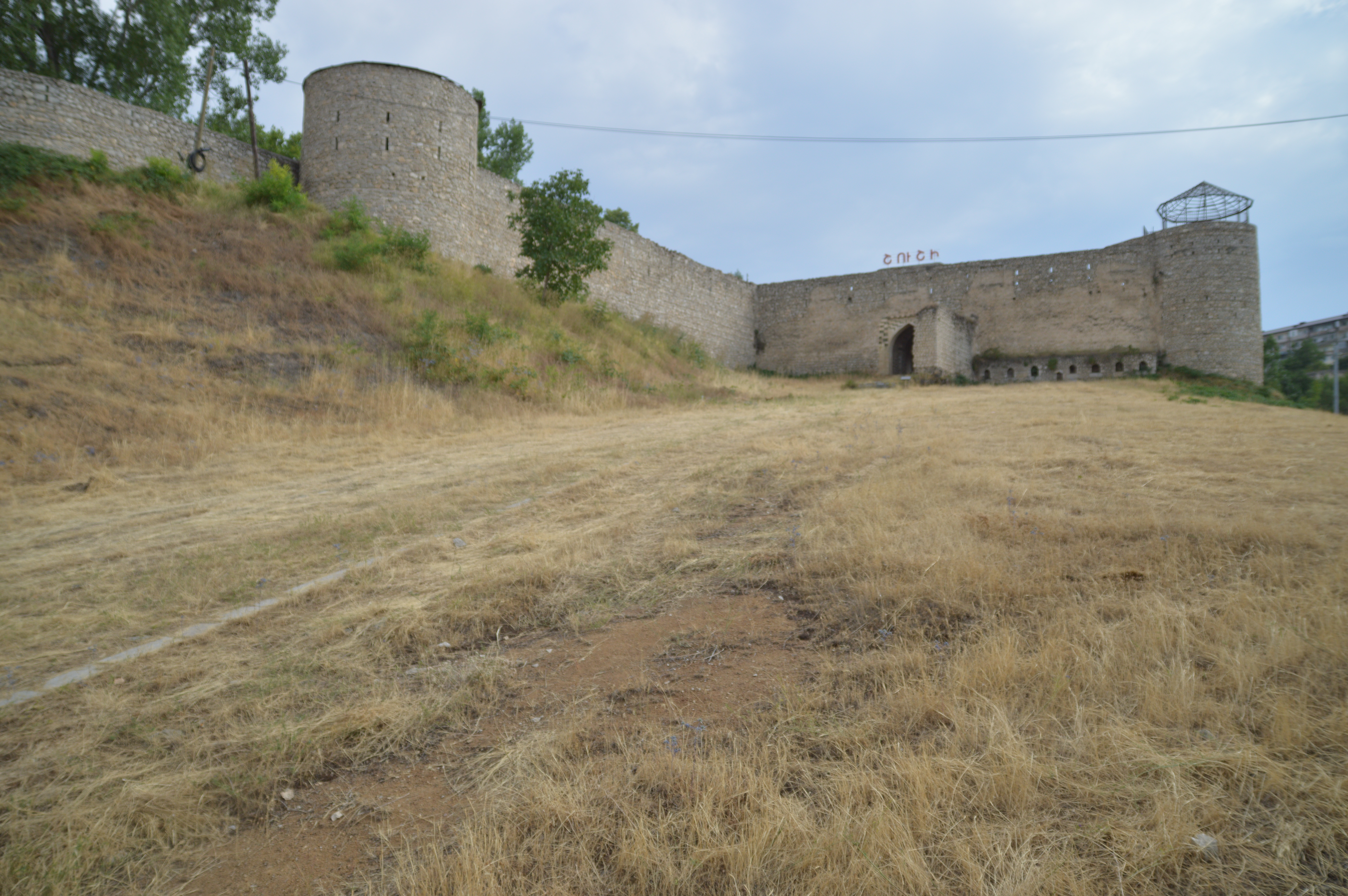 Walls of Shushi fortress